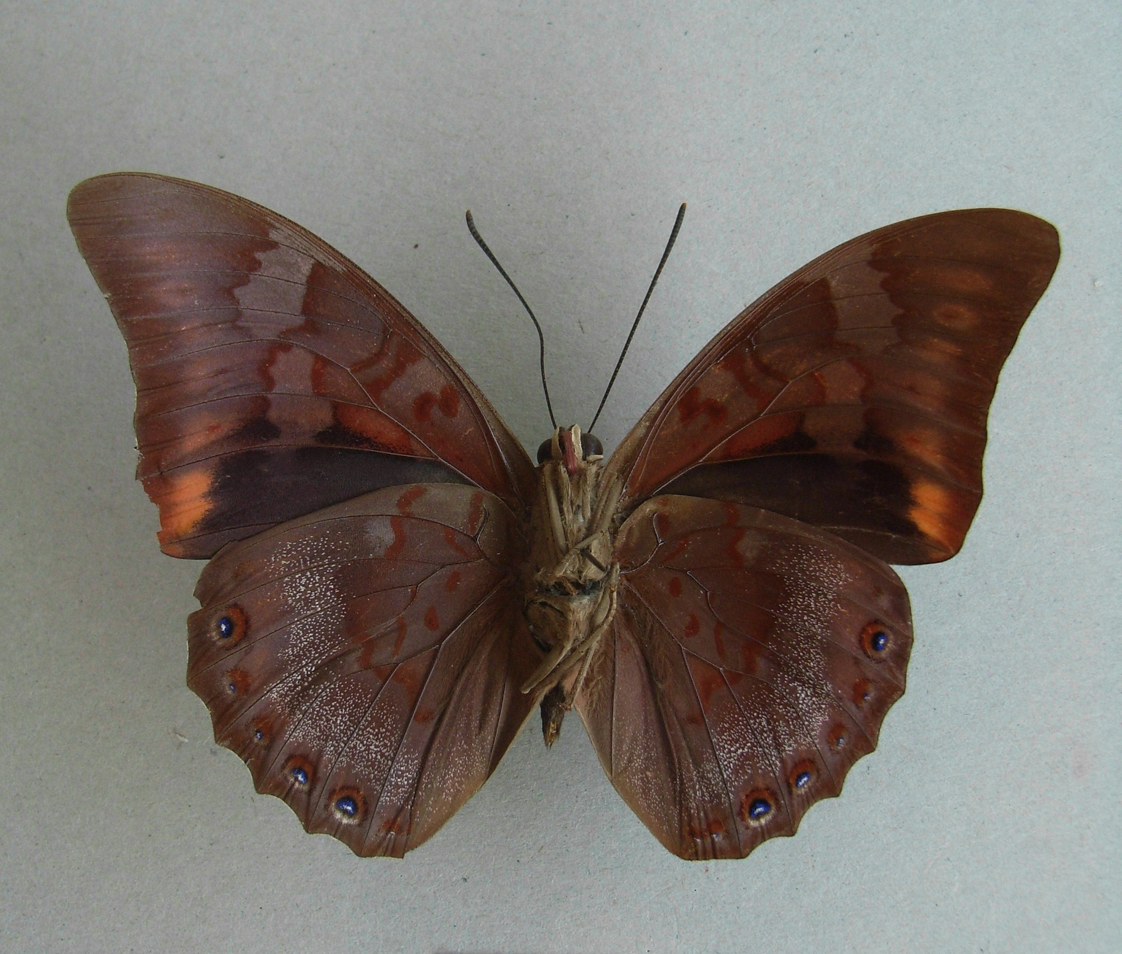 Prepona praeneste Hewitson,1859 Underside